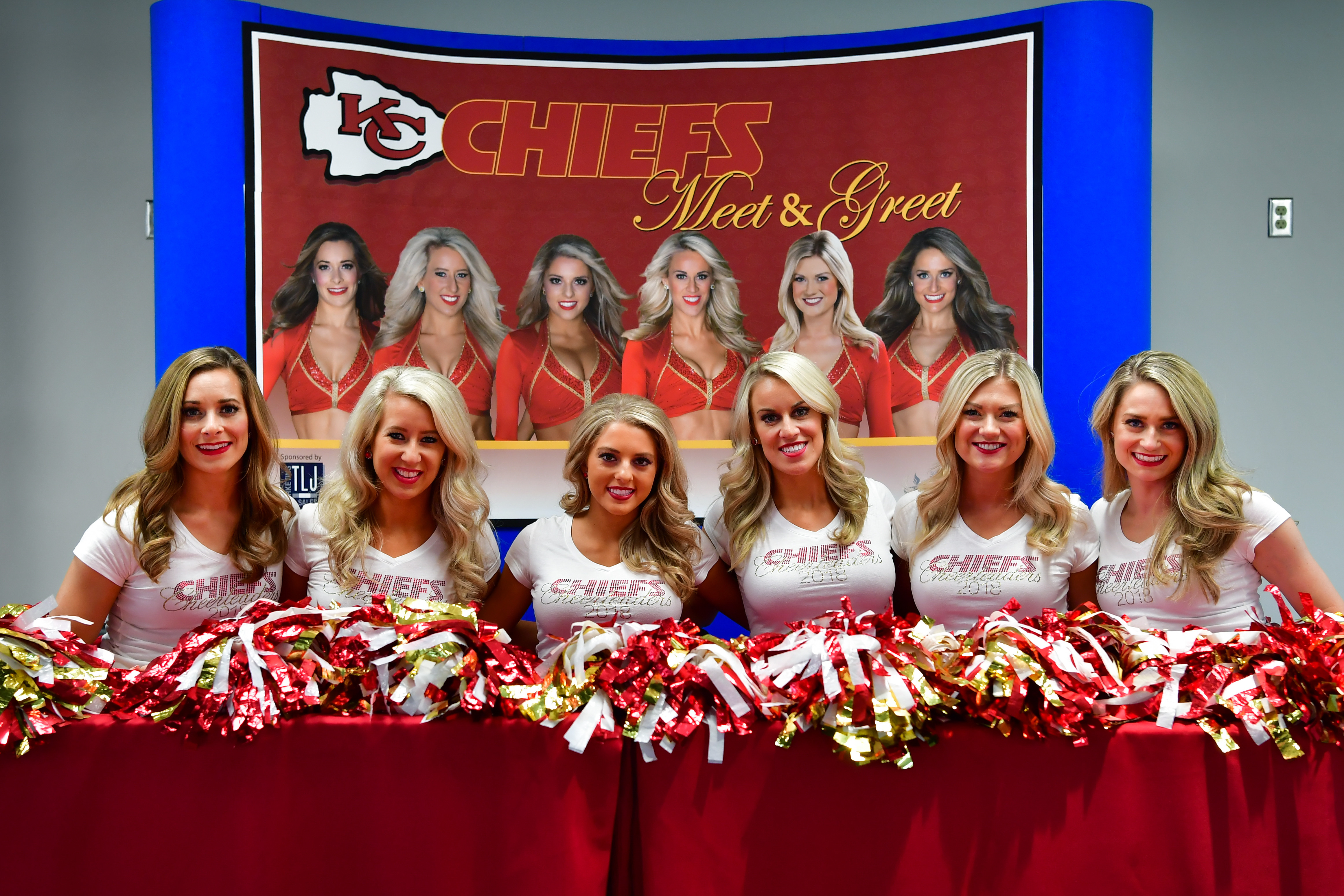 Kansas City Chiefs cheerleaders pose for a photo during a meet and greet at the event center at Schriever Air Force Base, Colorado, Sept. 14, 2018. Schriever Airmen and their families had the opportunity to meet the cheerleaders and have posters and sports apparel signed.